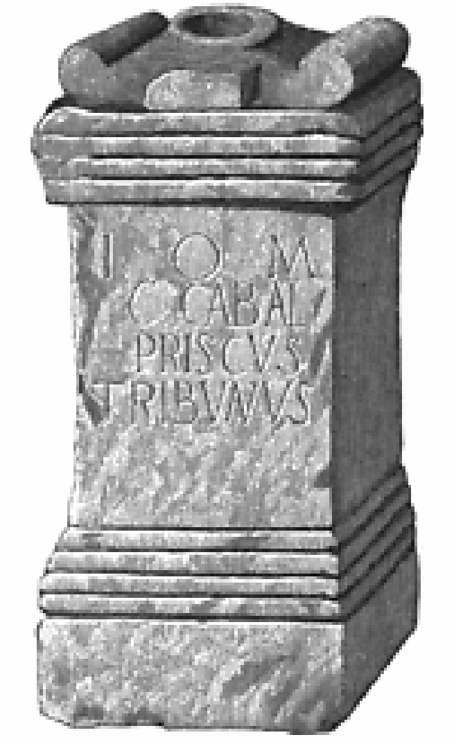 Altar dedicated to Jupiter Optimus Maximus by Gaius Caballius Priscus, tribune, coh. I Hispanorum cf., found before 1725 at the Roman fort at Maryport, then known as Ellenborough, (Senhouse Museum).